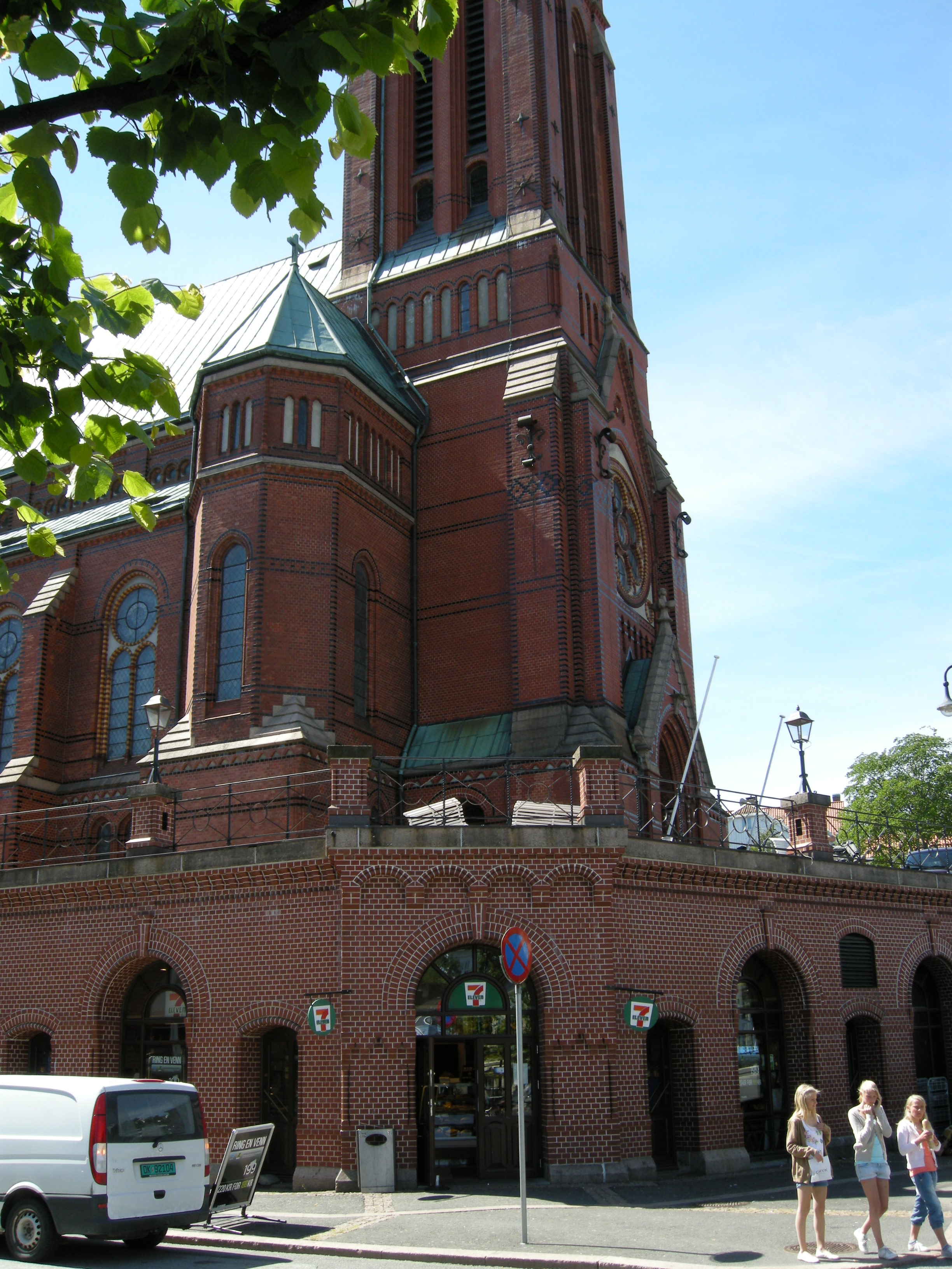 7-11 store under state church in Arendal, Norway.